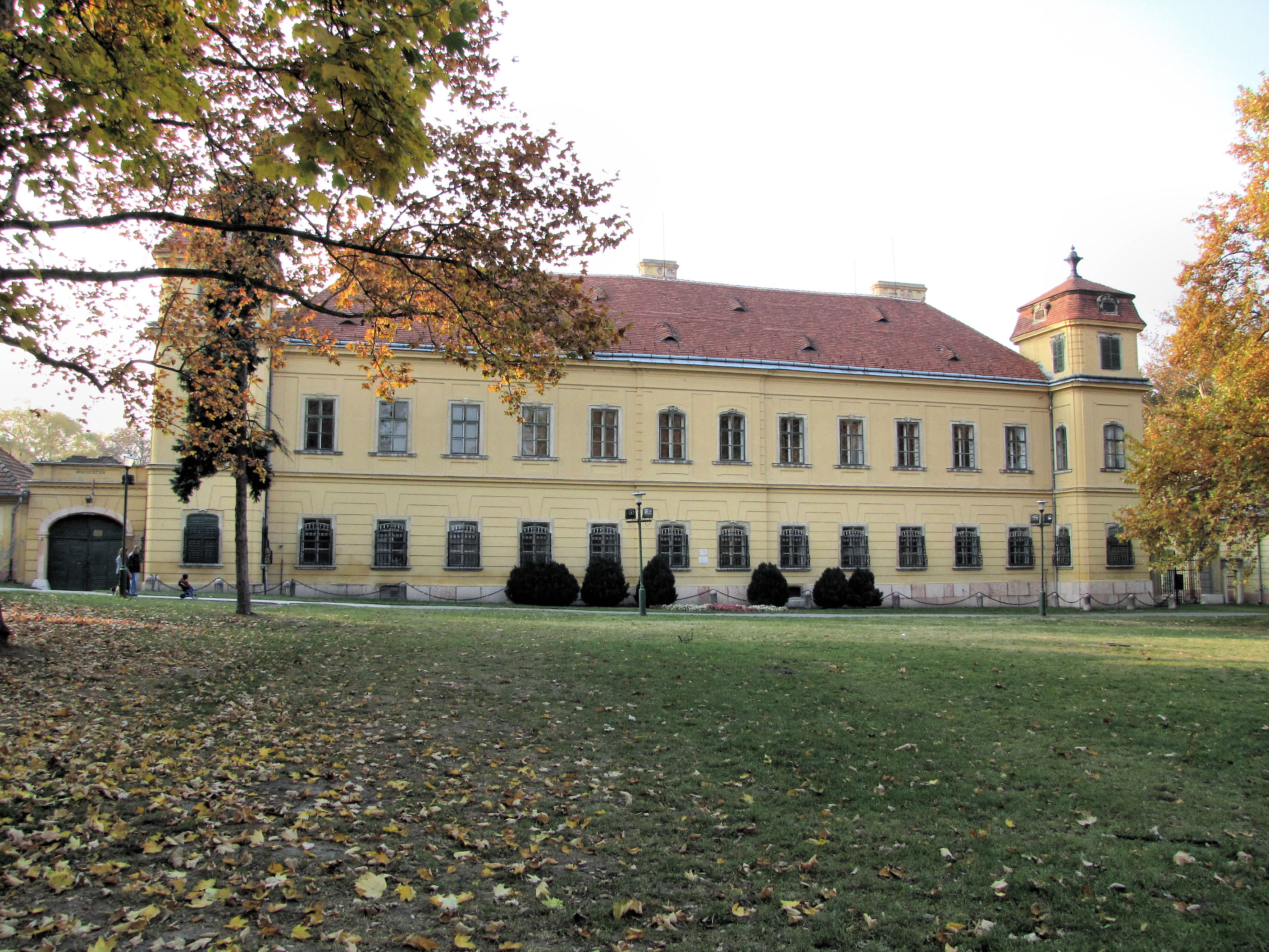 Esterházy mansion, Tata, Hungary. Unknown